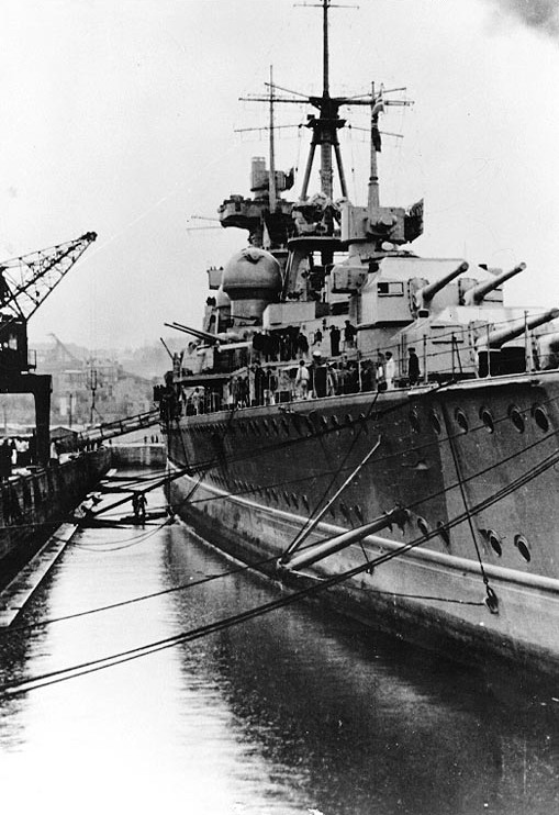 German heavy cruiser Prinz Eugen Preparing to leave Kiel, Germany, circa early 1941. Note "bedspring" radar antennas mounted on the front of her rangefinder shields. At this time, German' radar was used for rangefinding only, not for deflection. Also note folding propeller guard attached to her hull side.